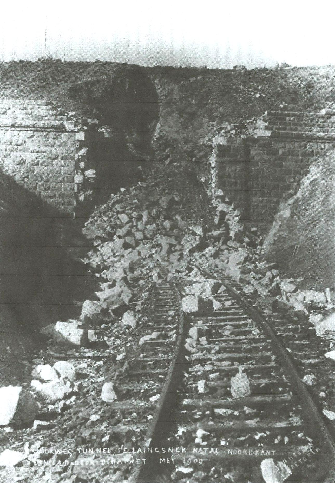 Northern portal of Laing's Nek Tunnel after its destruction by retreating Boer forces in 1900